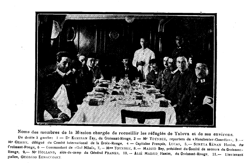 Date: 1921.